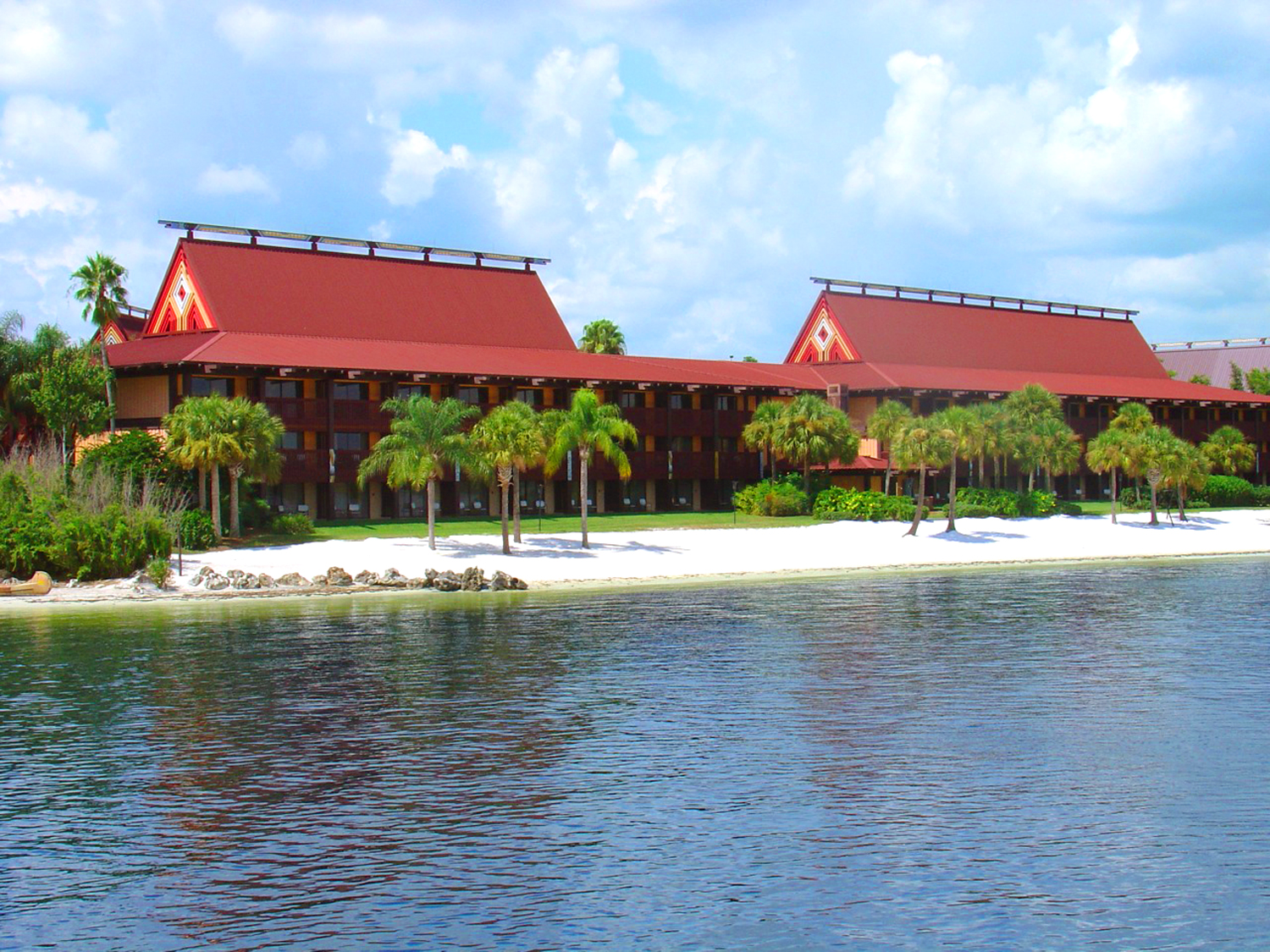 A view of Tahiti Longhouse from the Seven Seas Lagoon at Disney's Polynesian Resort in Walt Disney World in Florida.